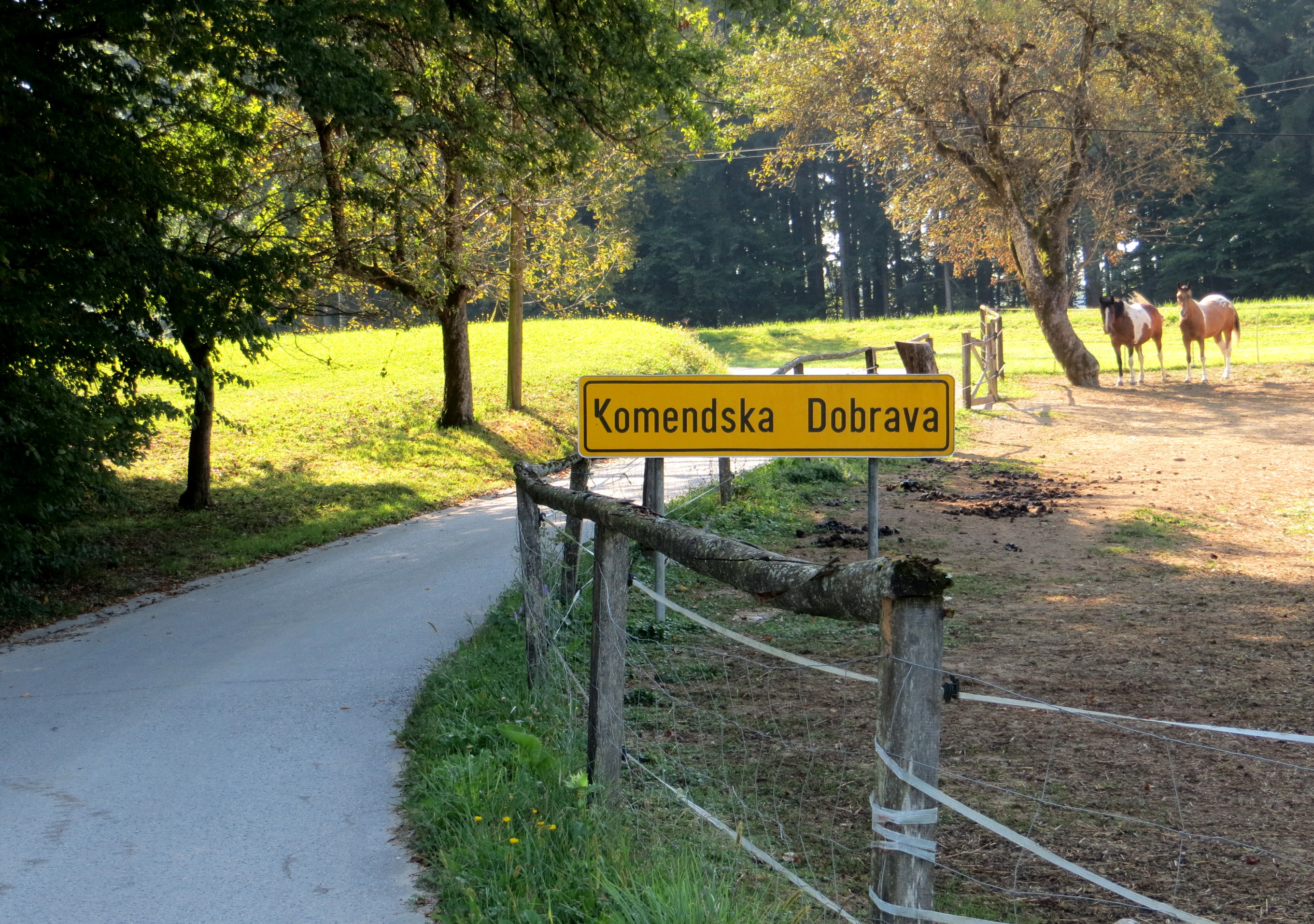 Komendska Dobrava, Municipality of Komenda, Slovenia